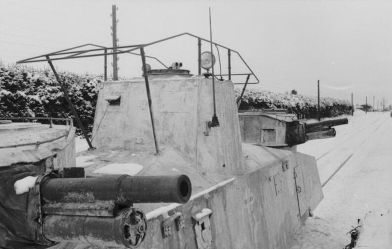 Soviet armoured diesel wagon type MBV D-2 captured by the Germans